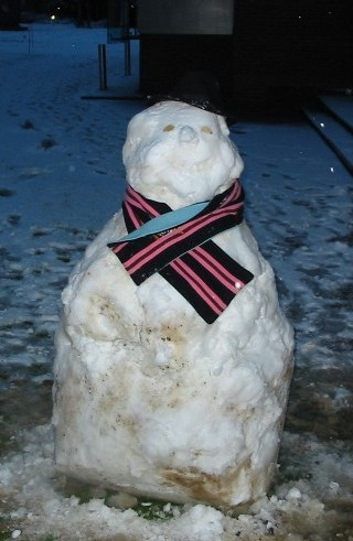 snowman dressed in a college scarf belonging to a member of Churchill College